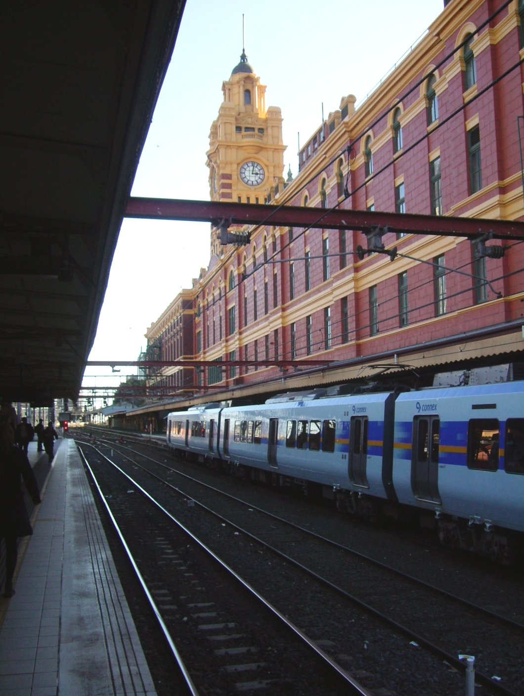 Taken by myself on 16/8/2006